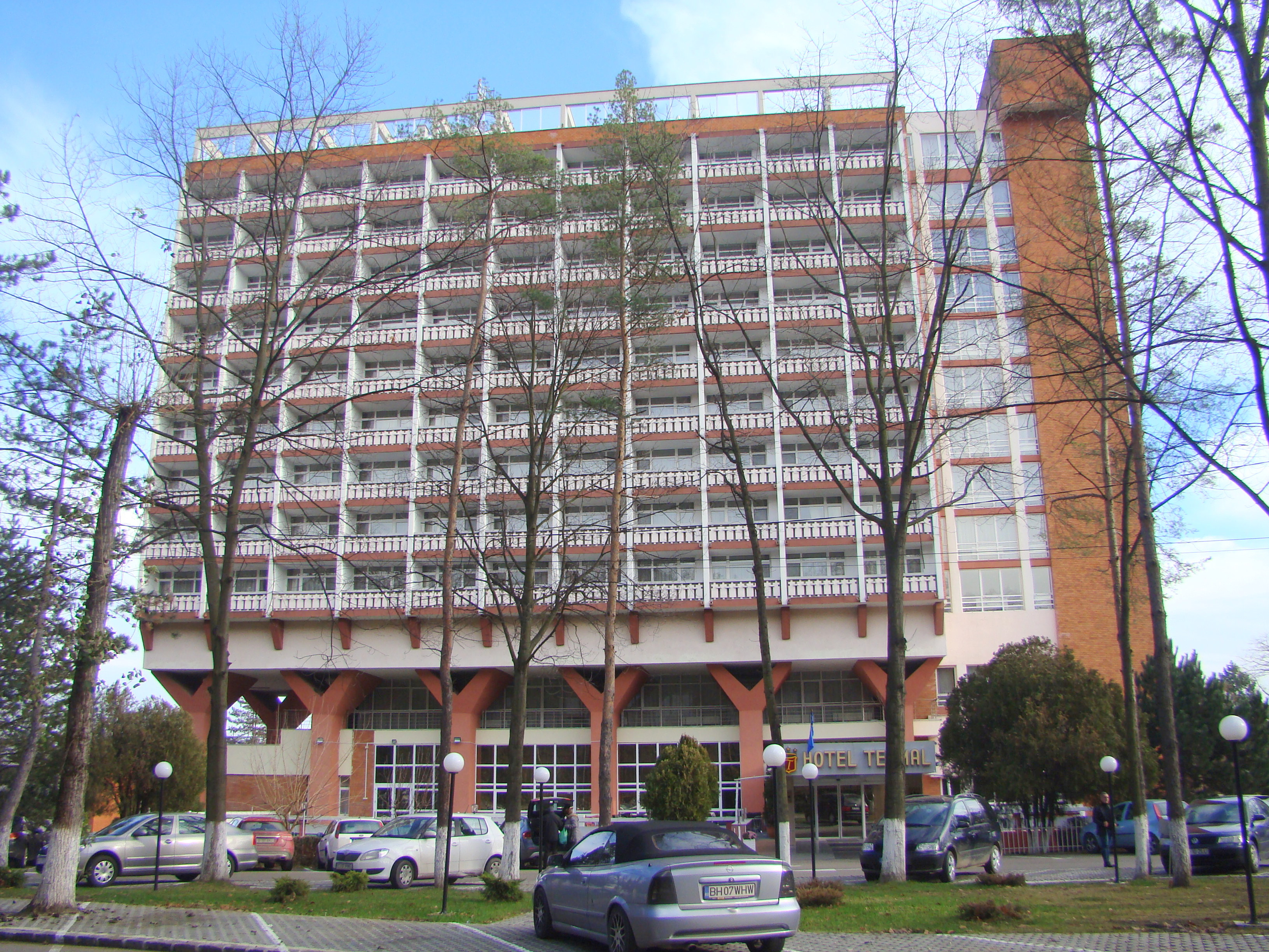 Hotel Termal in Băile Felix, Bihor county, Romania